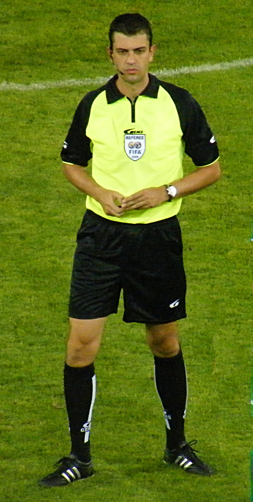 Viktor Kassai Hungarian football referee